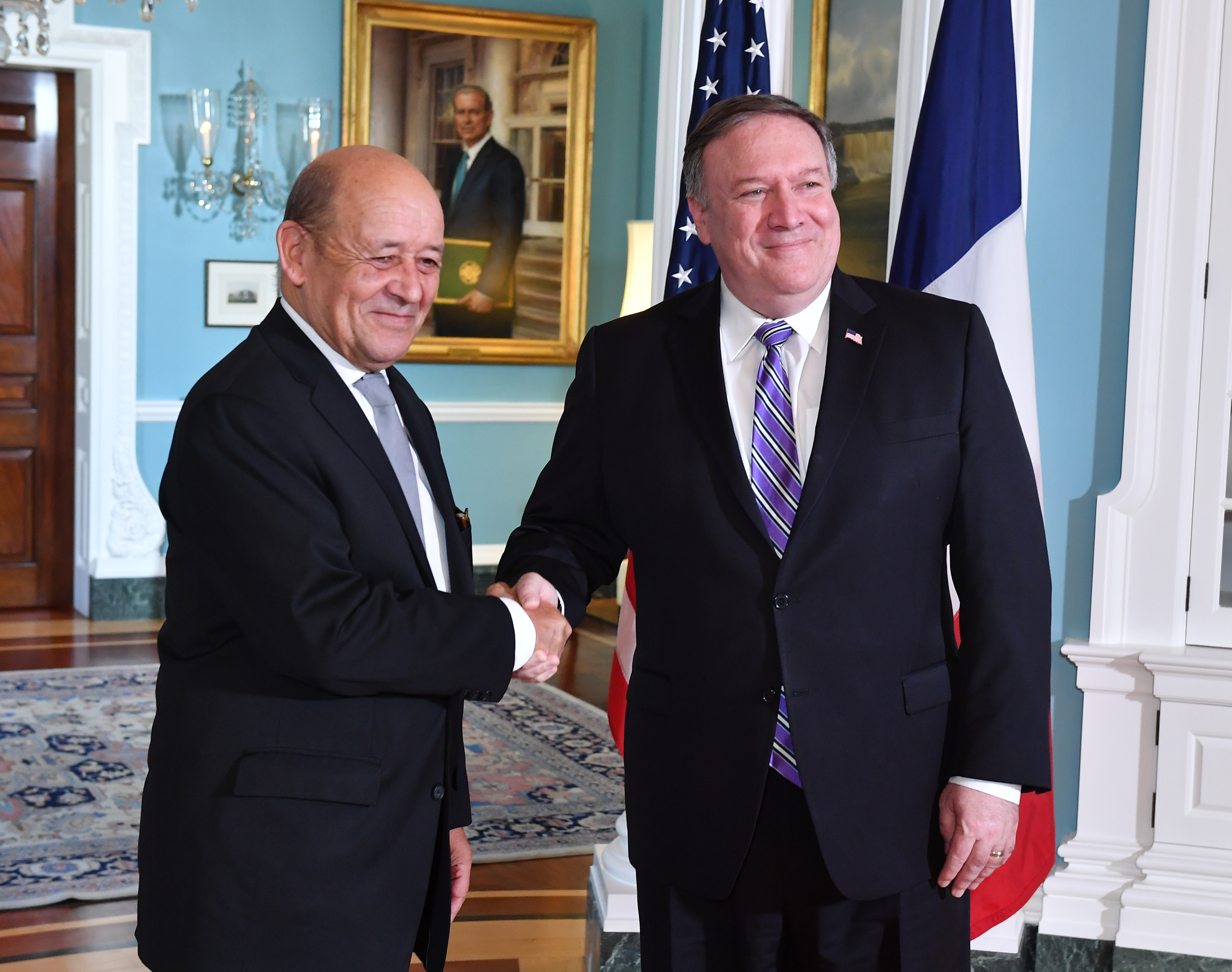 Secretary Pompeo meets with French Foreign Minister Jean-Yves Le Drian, at the Department of State, October 4, 2018. [State Department Photo / Public Domain]